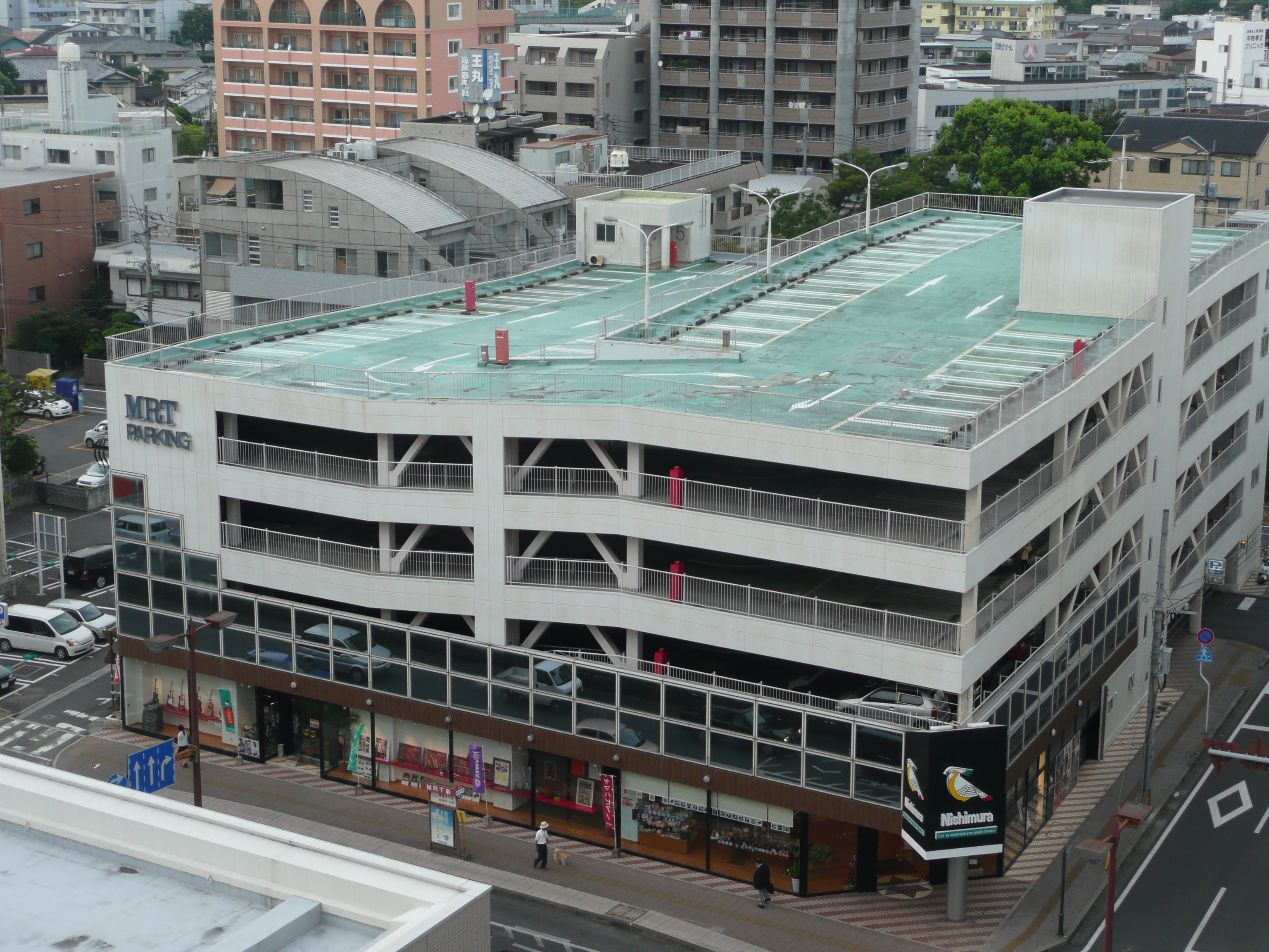 MRT Parking lot (Miyazaki Broadcasting Co.,Ltd. - Tachibana Street, Miyazaki City, Miyazaki, Japan)